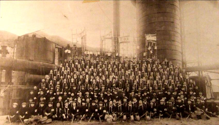 Tanaka_iron_works,_Kamaishi_mine.